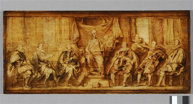 Les Echevins de Bruxelles autour de la statue de la Justice